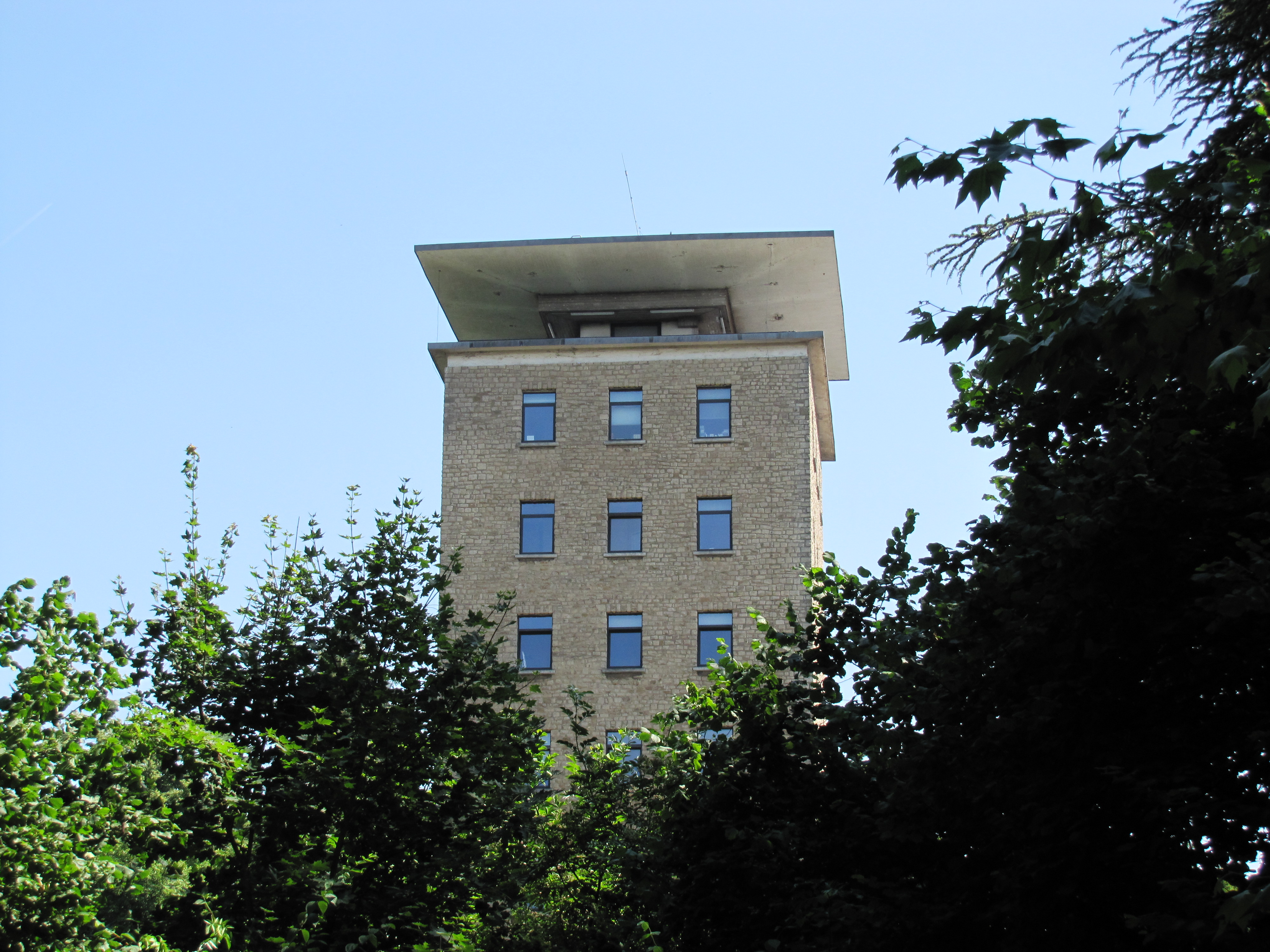 Tower Villa Louvigny, Luxembourg City